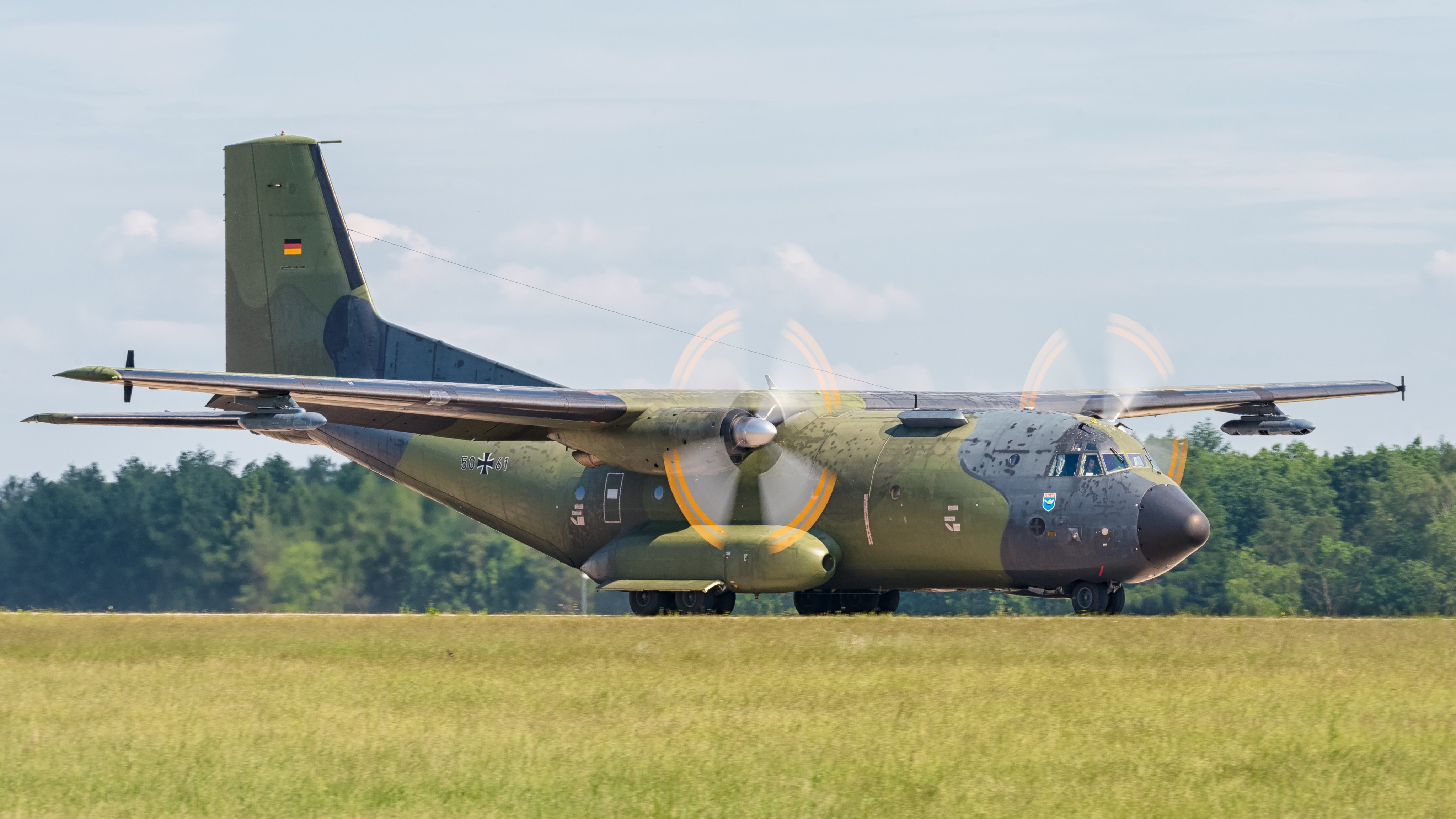 German Air Force LTG 63 Transall C-160D (reg. 50+61, cn D-83) at ILA Berlin Air Show 2016.